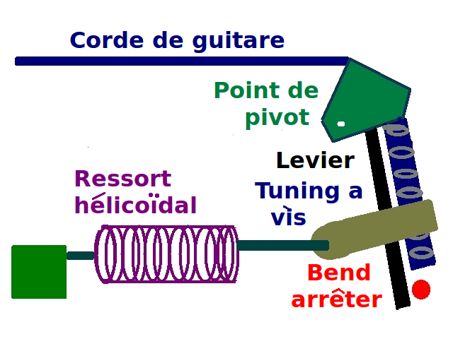 This is a mechanism. It maintains constant tension on a guitar string. It works with a coiled spring and a lever. It is made by a company called "Evertune".